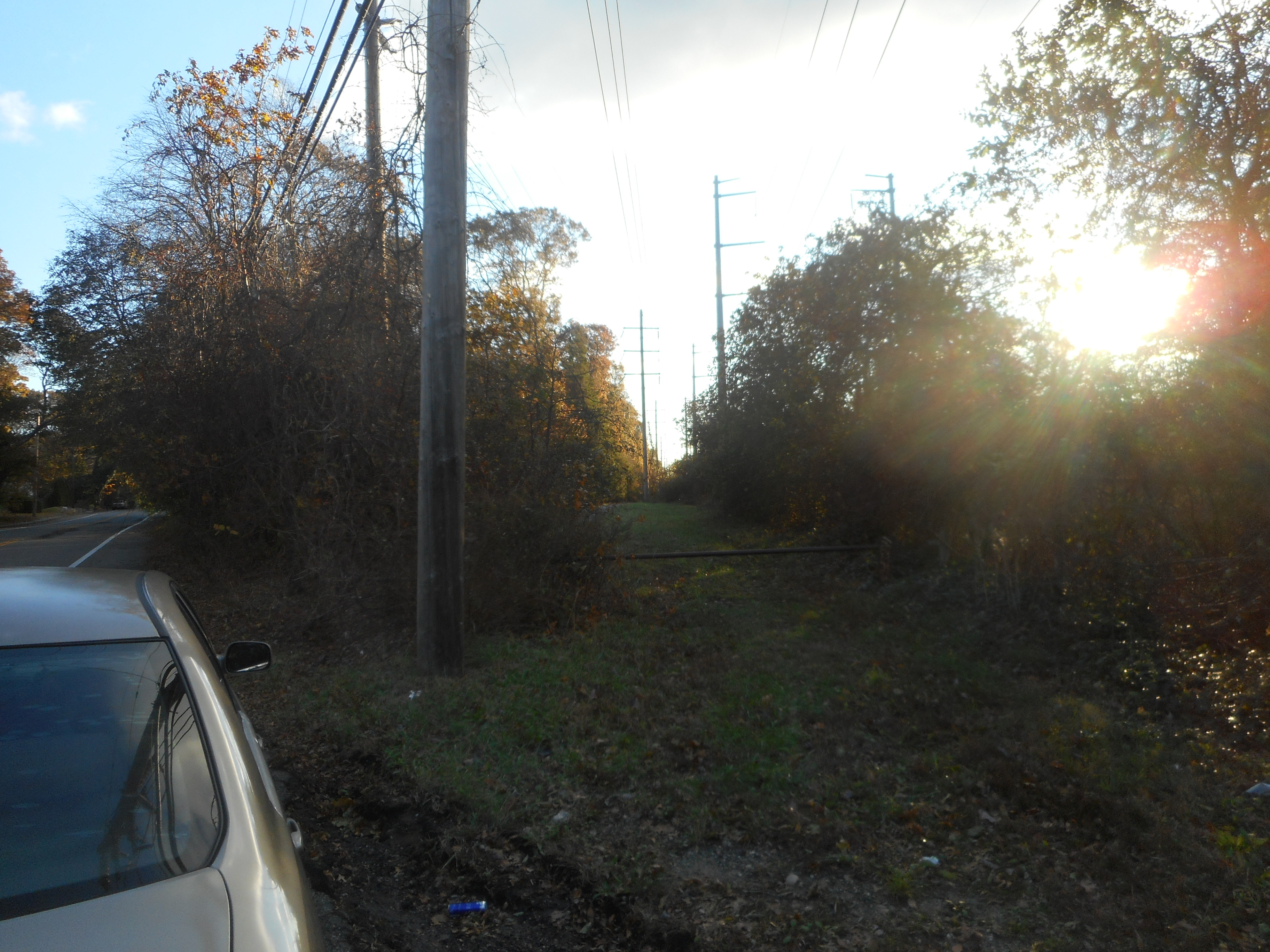 Dirt access road to a power line right-of-way once belonging to the Long Island Lighting Company, now to the Long Island Power Authority east of North County Road near Randall Road in East Shoreham, New York. This dirt trail is the only available access to the site of the former Shoreham Long Island Rail Road station which served the Wading River Branch of the Long Island Rail Road until 1938. The railroad line was bought by LILCO, and the station was torn down in stages between 1945 and 1950.